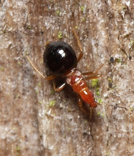 female Loricula sp. from "Königsforst" nature reserve in Cologne, Germany. Length is at most 1-2 mm.